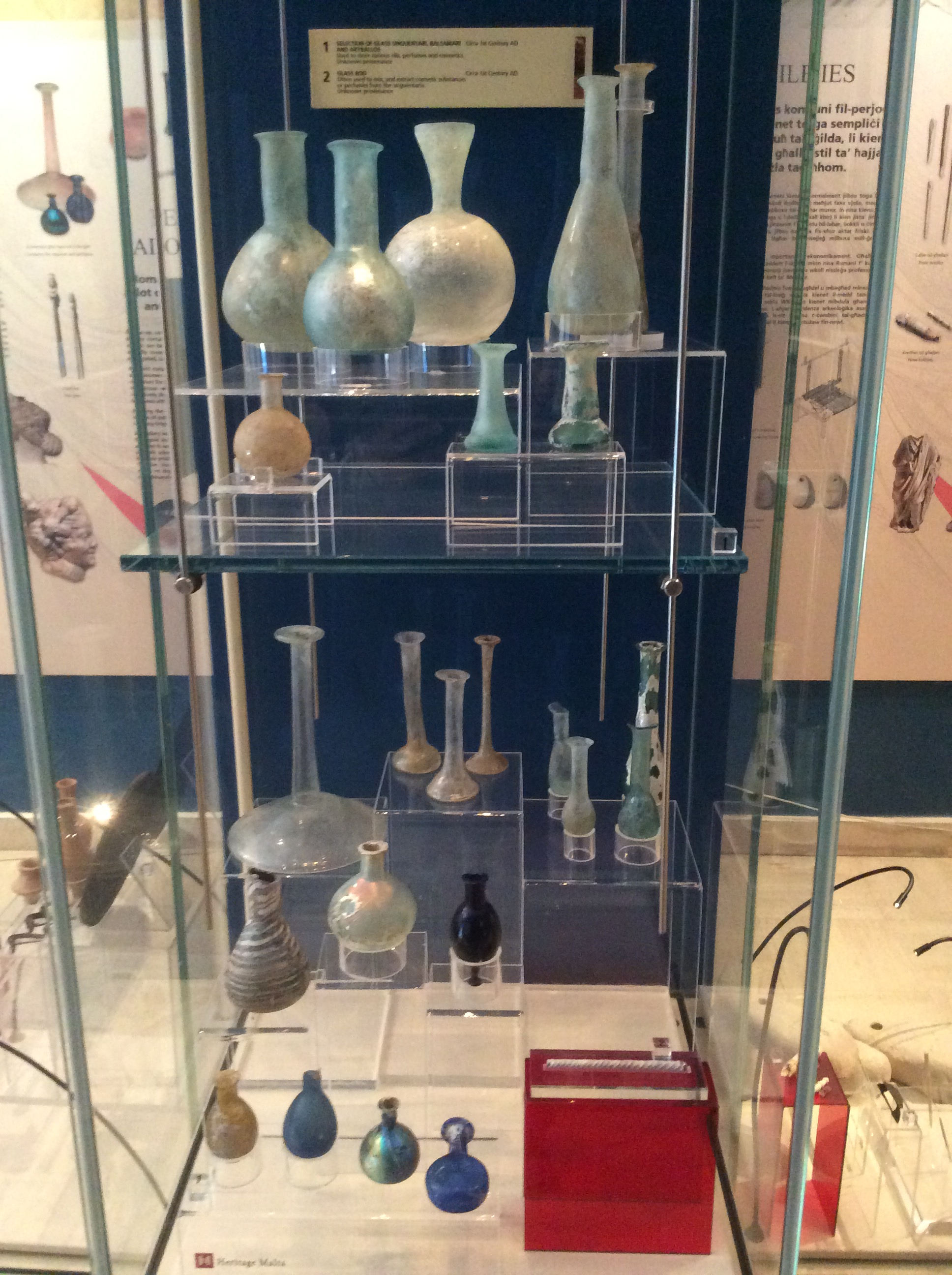 Roman glassware at domus romana